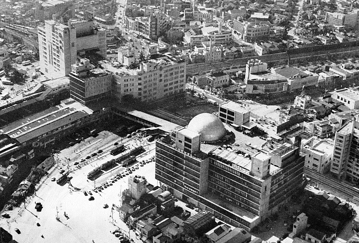 View of Shibuya circa 1960